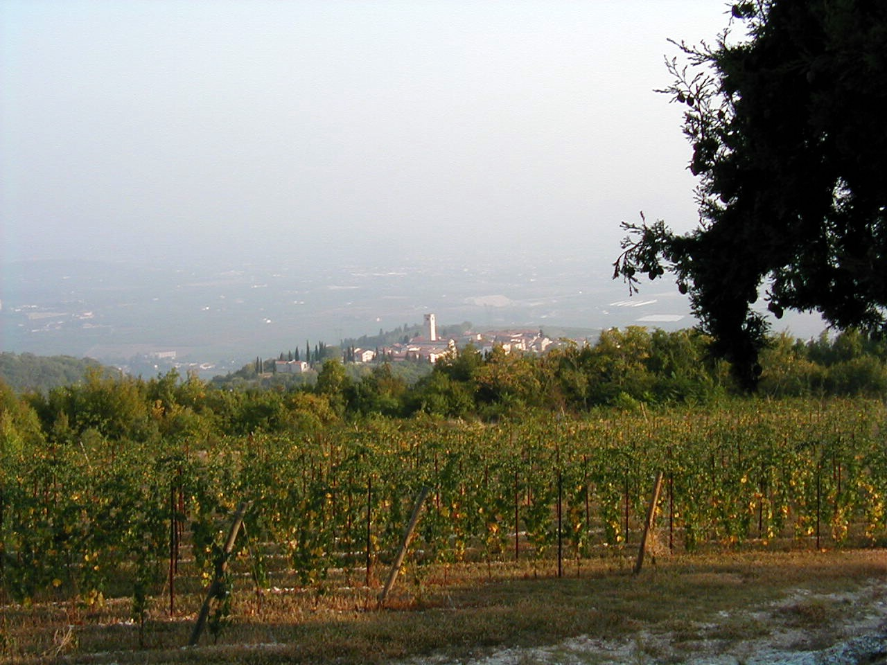 A vineyard in the Italian wine region of Valpolicella in the Veneto in late September.